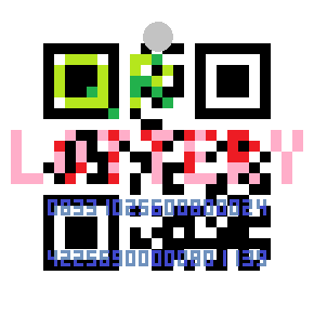 QR code with two interpretations with almost same probability of reading. Both on the edge of the highest error correction (of different flip).